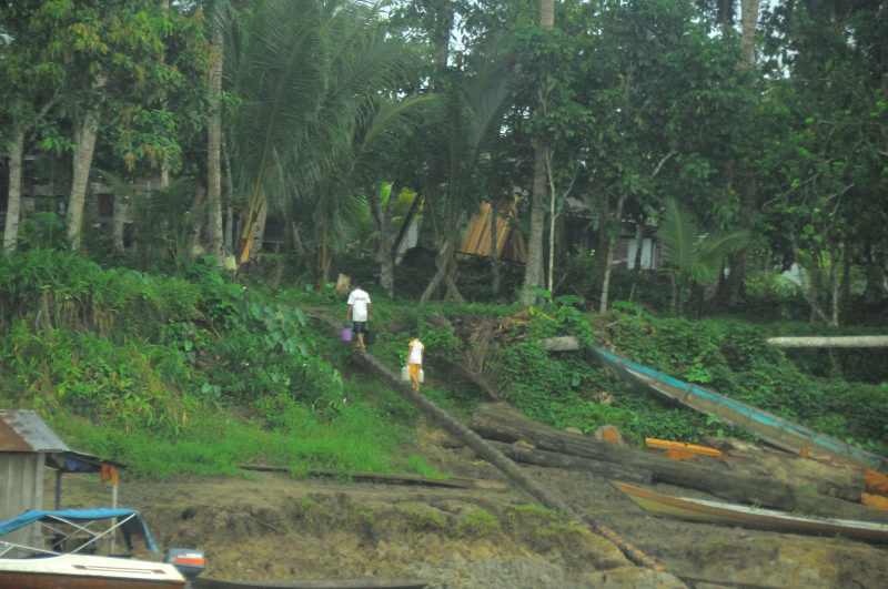 One of Dayak village by Kayan river